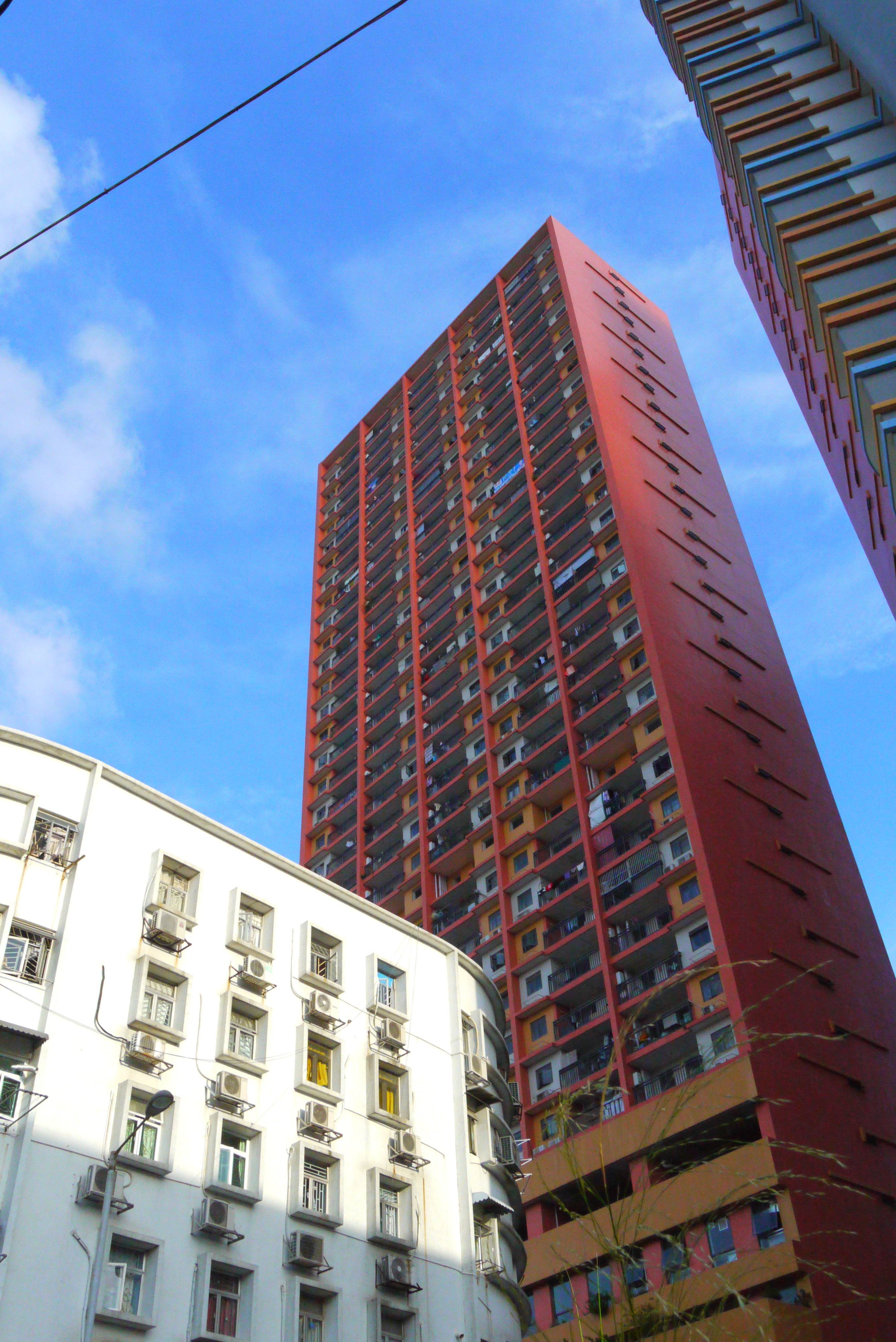 Cheng Chung 2